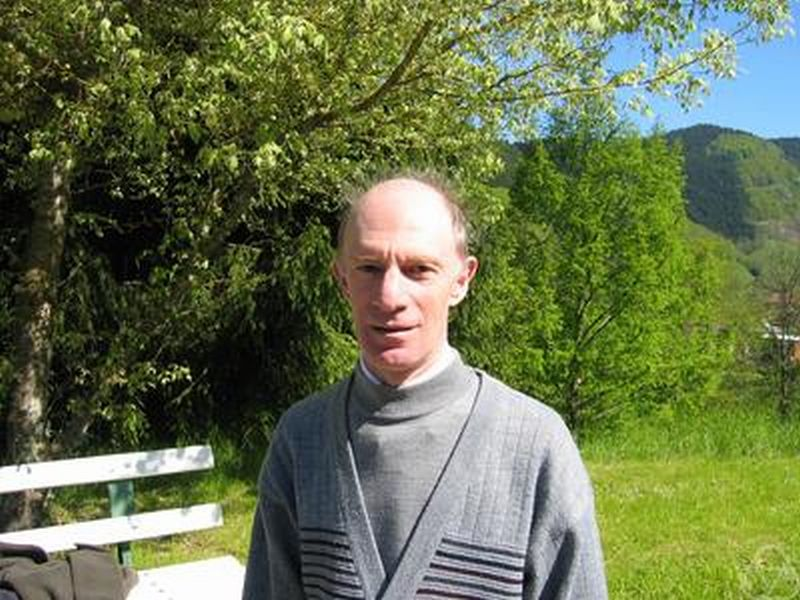 Boris Tsirelson, Oberwolfach 2005